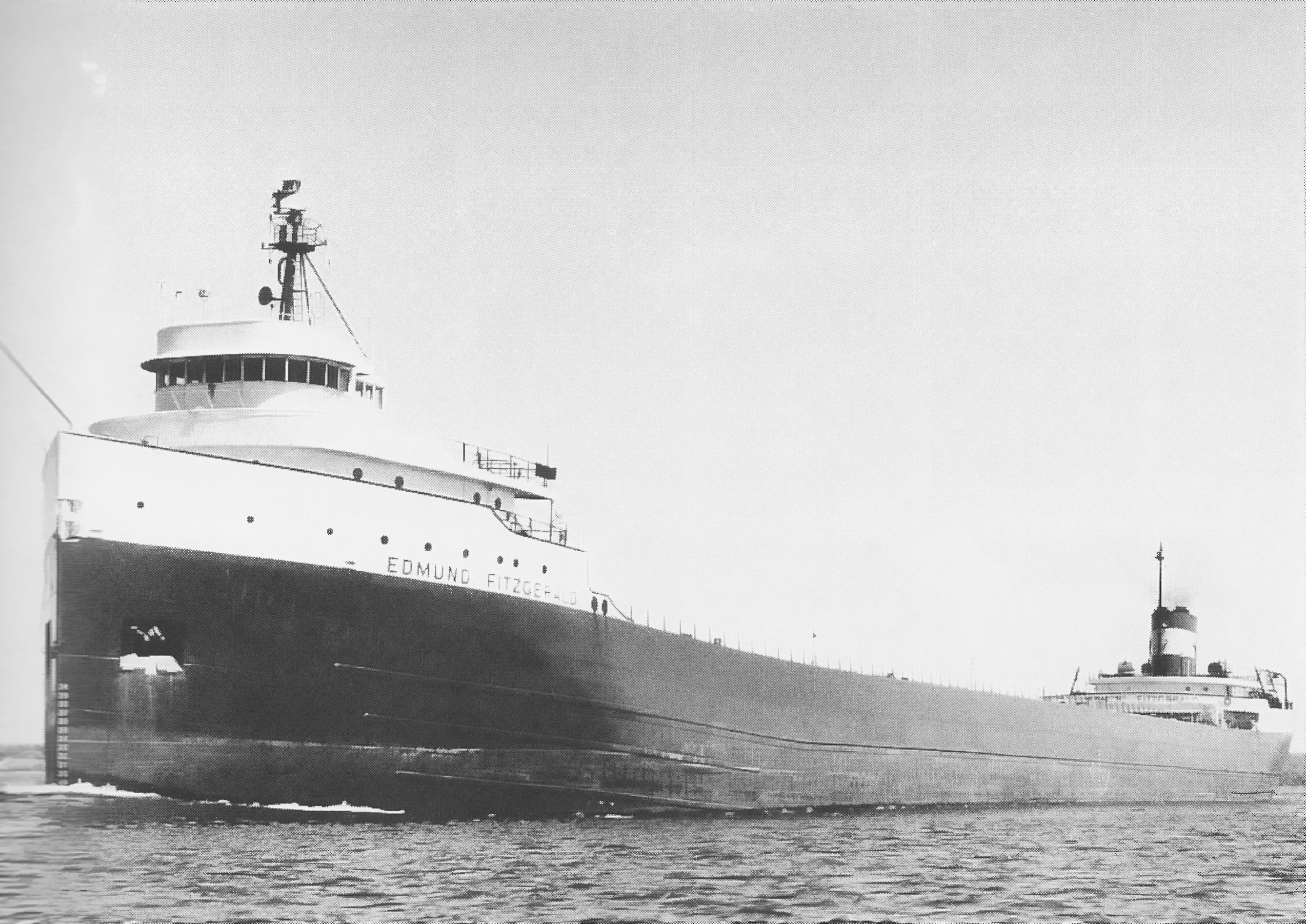 SS Edmund Fitzgerald underway.